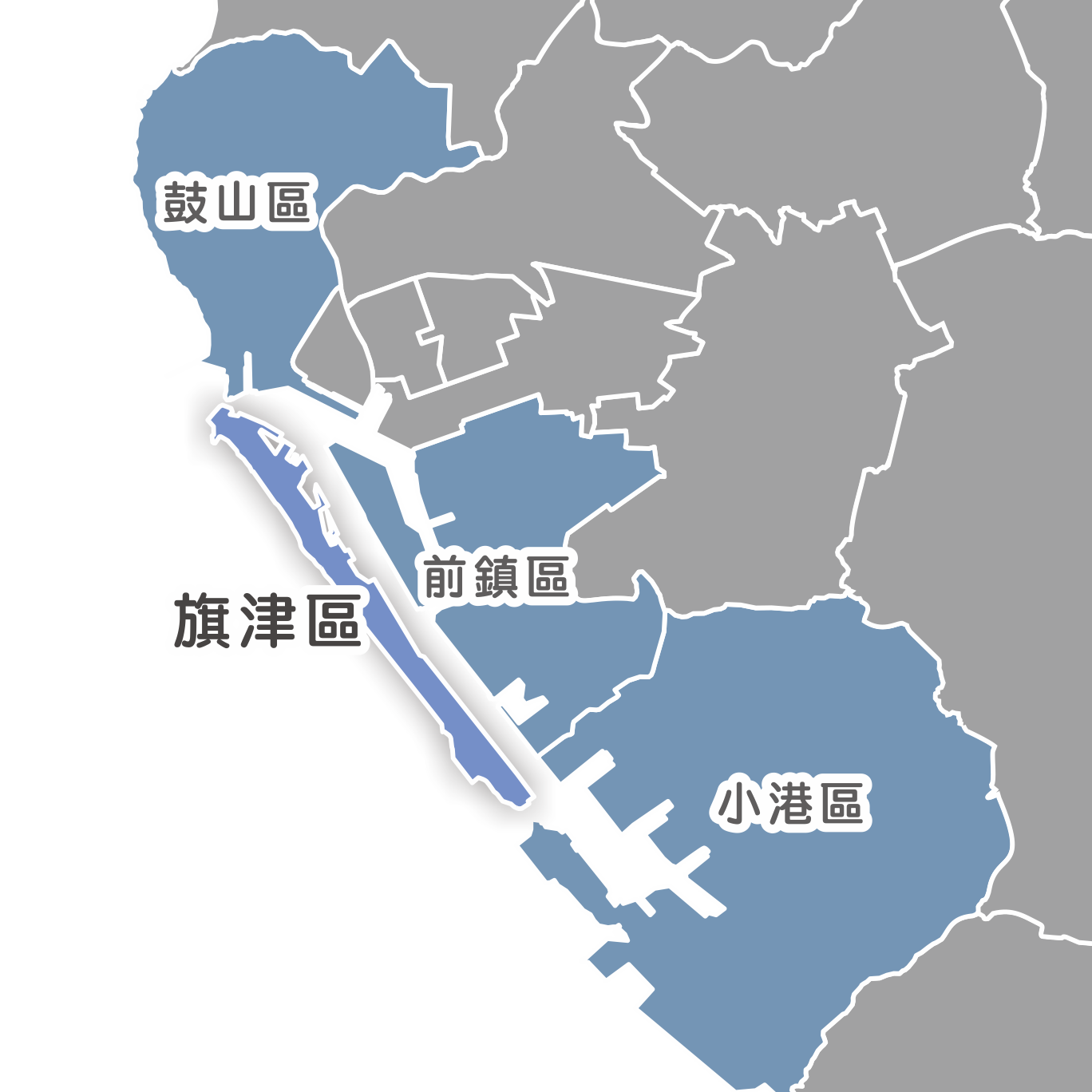 cijin